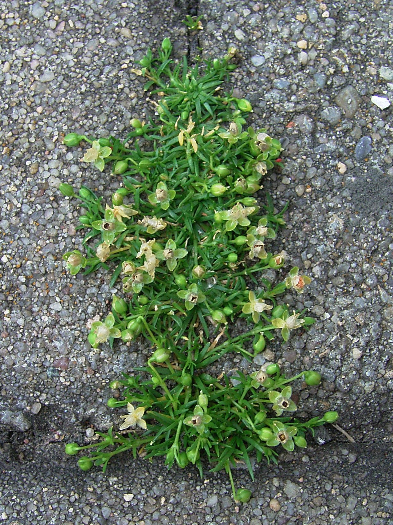 Sagina procumbens